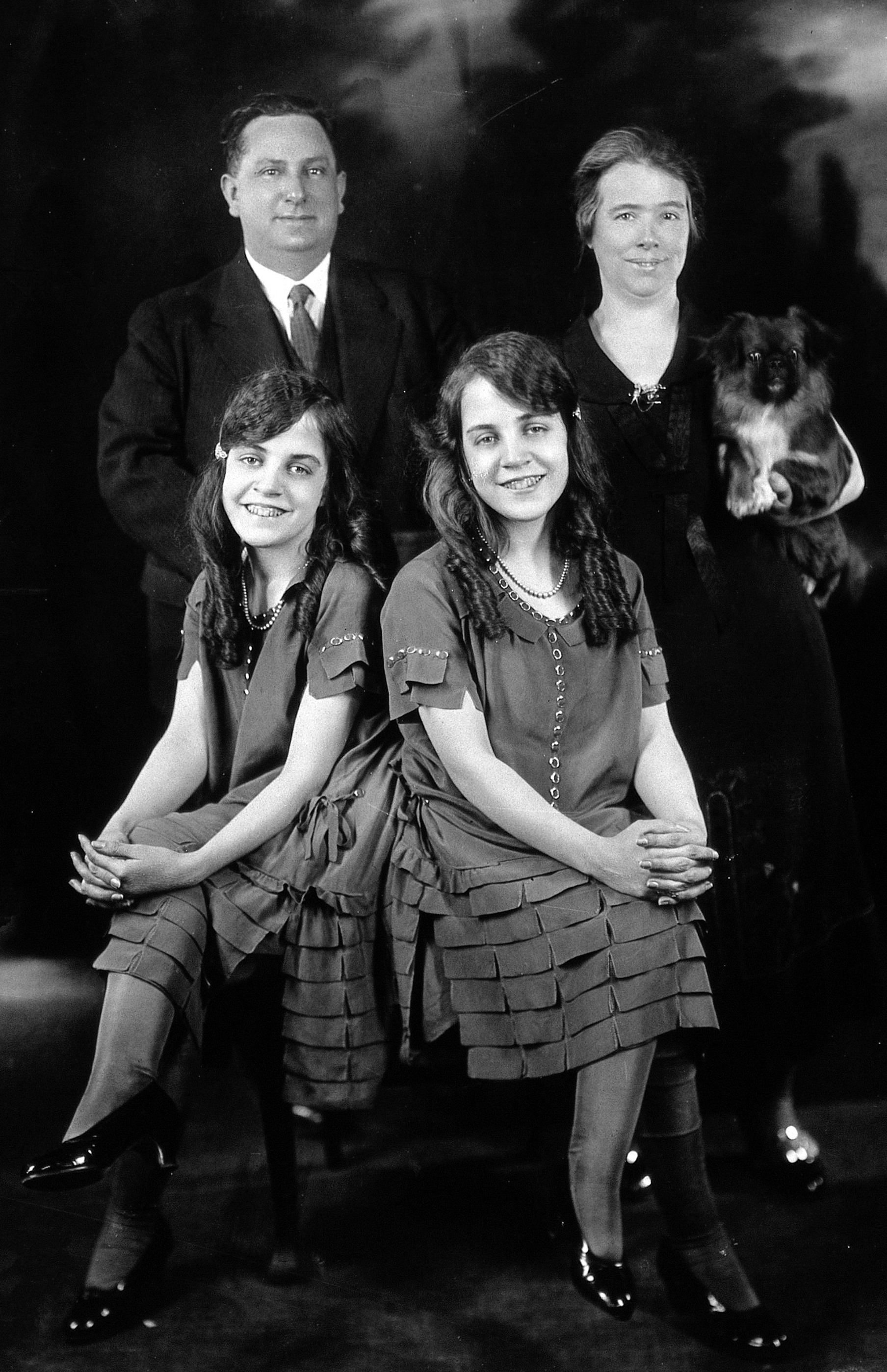 Daisy and Violet Hilton, conjoined twins, with the Meyers, with whom they lived and who managed them